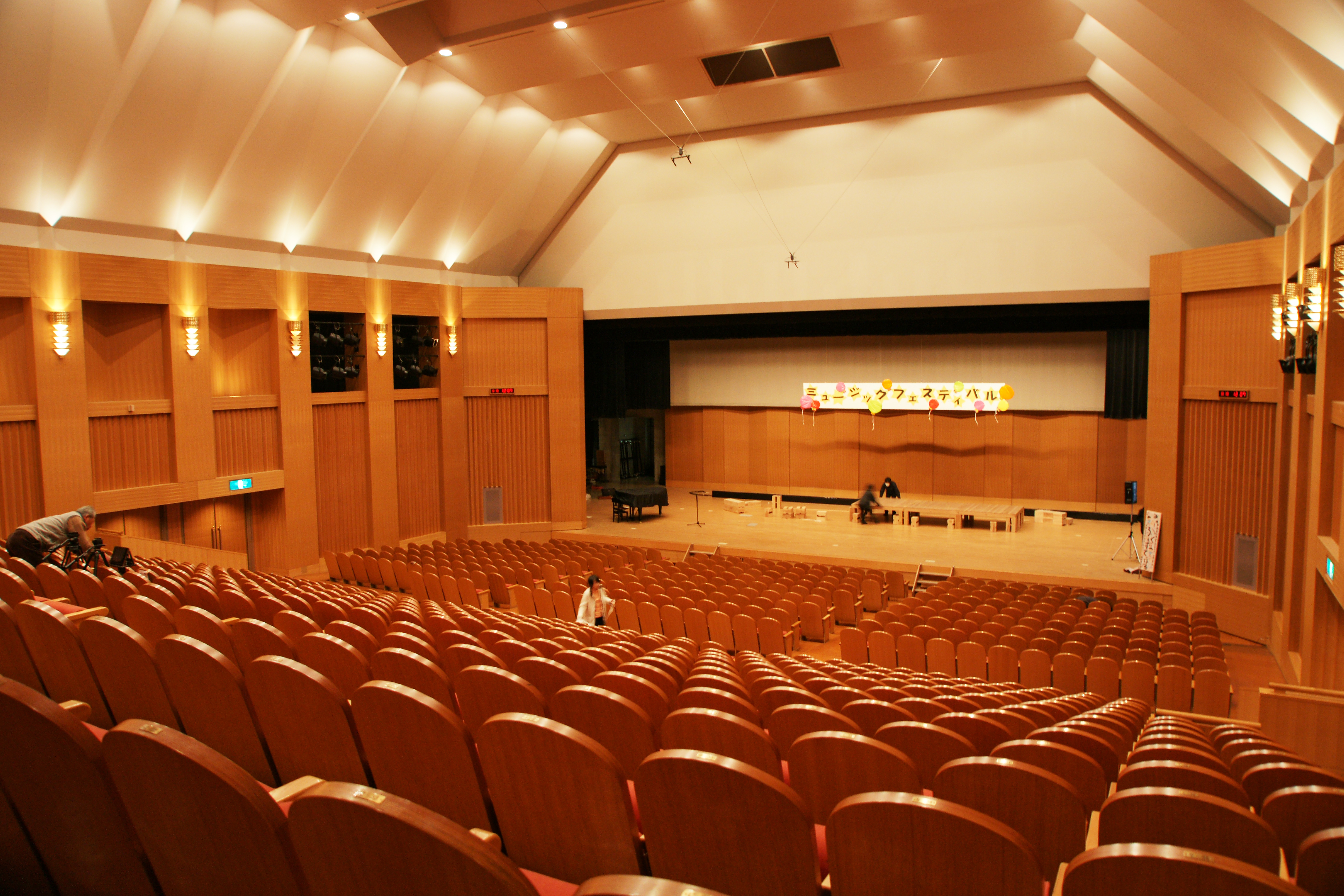 Asuka Hall in Taishi, Hyogo prefecture, Japan